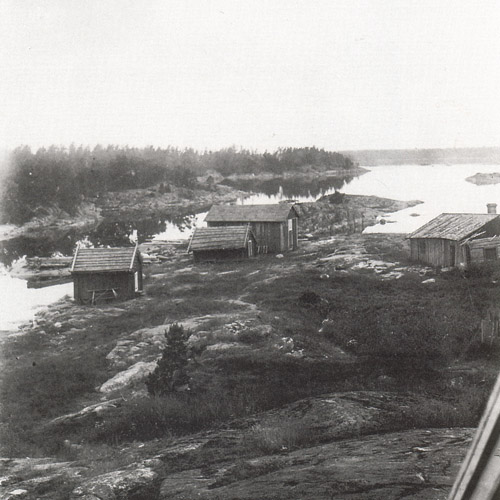 Fishing houses in Ingå, Finland (then Russia) in 1905.